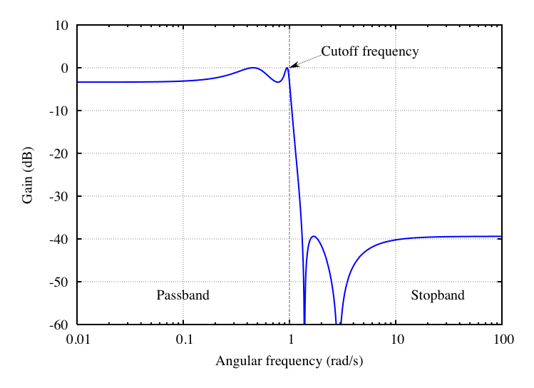 Cauer filter response; the amount of passband ripple is exaggerated to make it easy to see